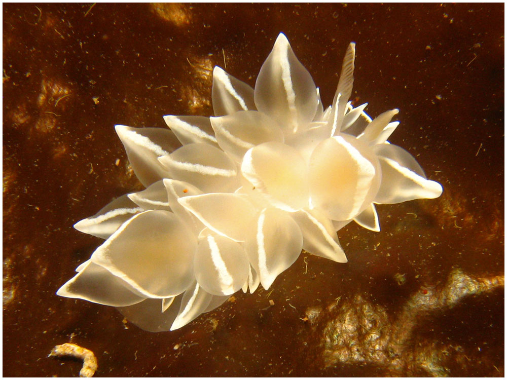 The seaslug Dirona albolineata at Sund Rock in Hood Canal.